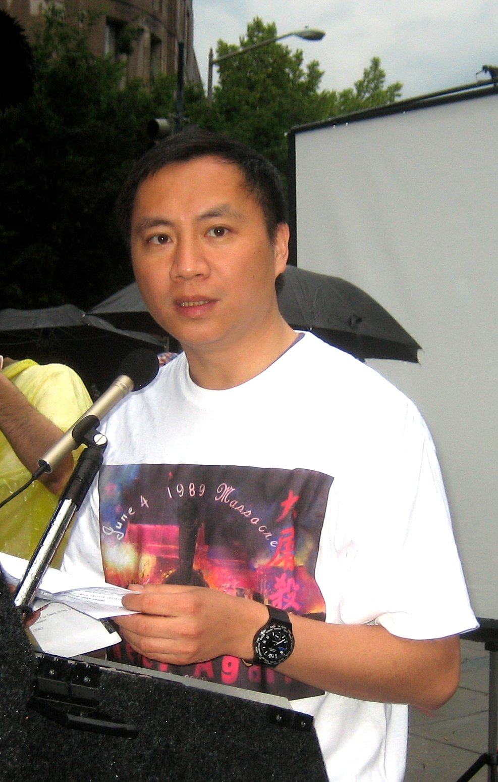 Wang Dan (Chinese:王丹) addresses the crowd.